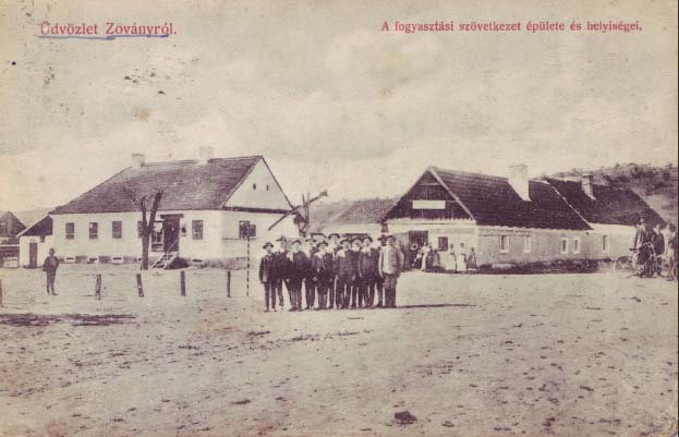 Postcard of Zovány village (Hungary, now Zăuan in Romania)